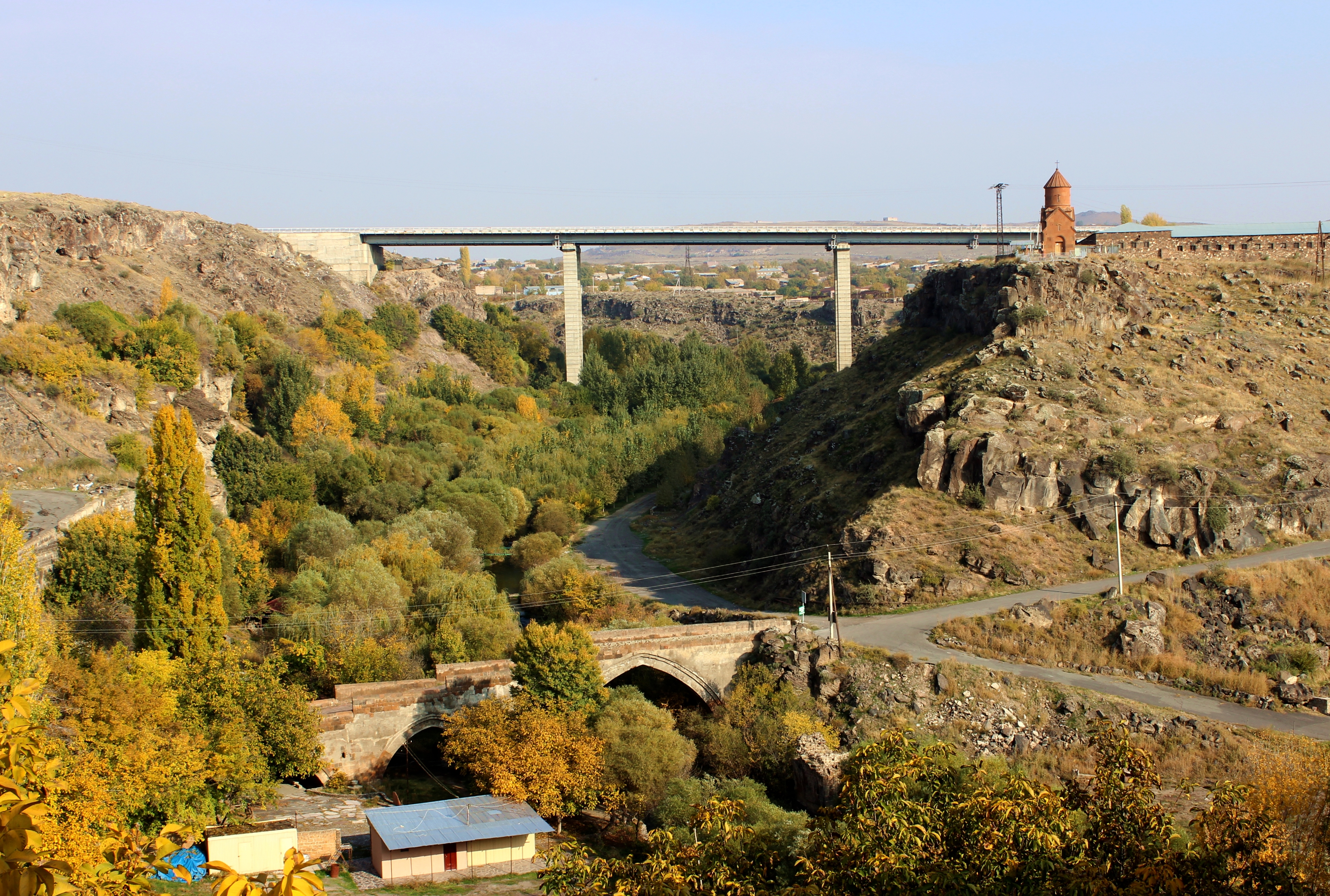 View of the gorge at Ashtarak with S. Sarkis on the hilltop and medieval bridge below.